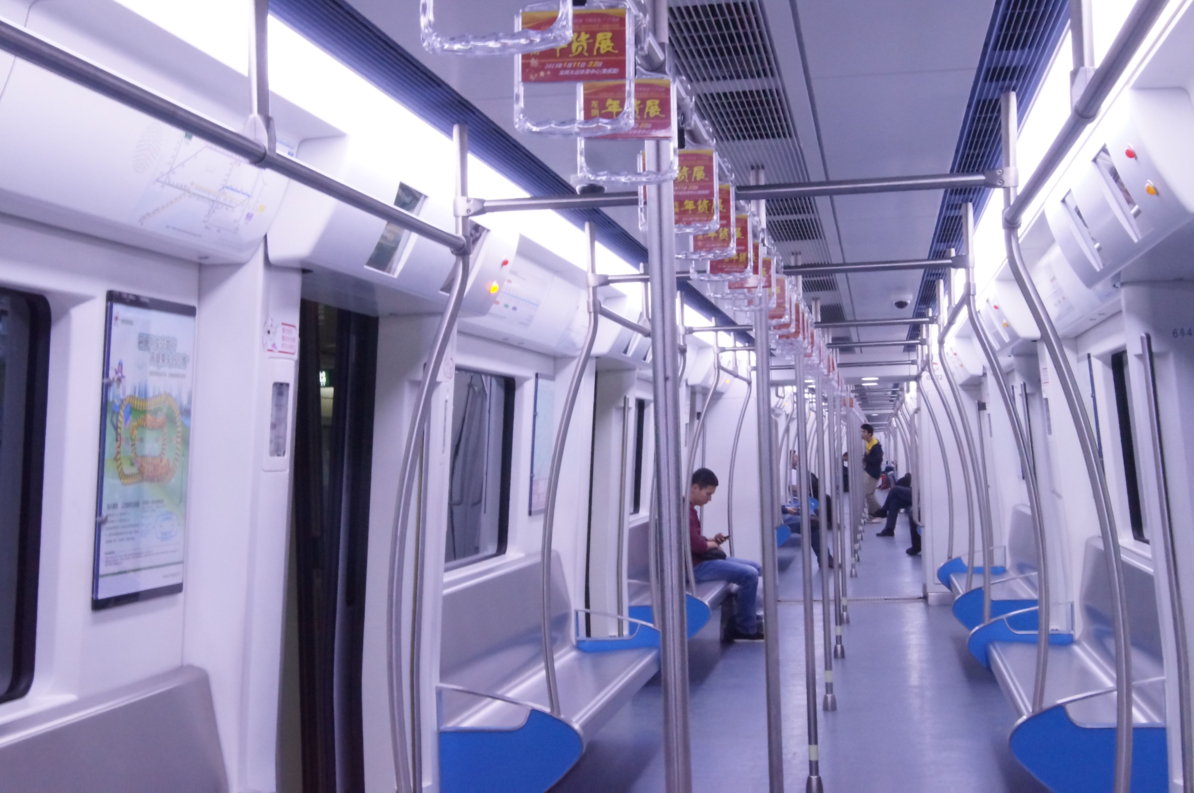 Longgang Line Train.